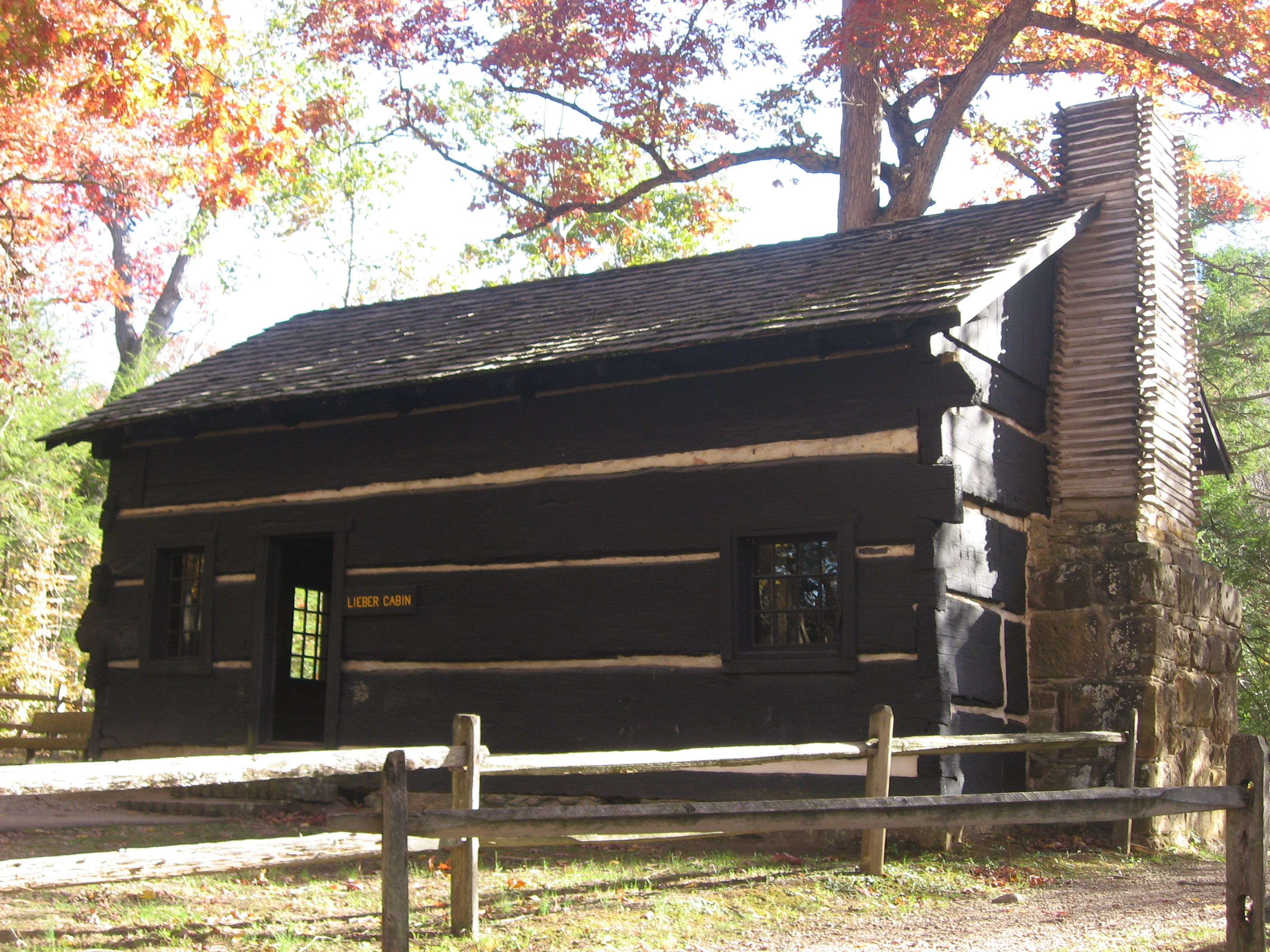 Northern side (rear) of the Richard Lieber Log Cabin, located on the grounds of Turkey Run State Park north of Marshall in Sugar Creek Township, Parke County, Indiana, United States. Built in 1848 and completely rebuilt in 1918, it is listed on the National Register of Historic Places.